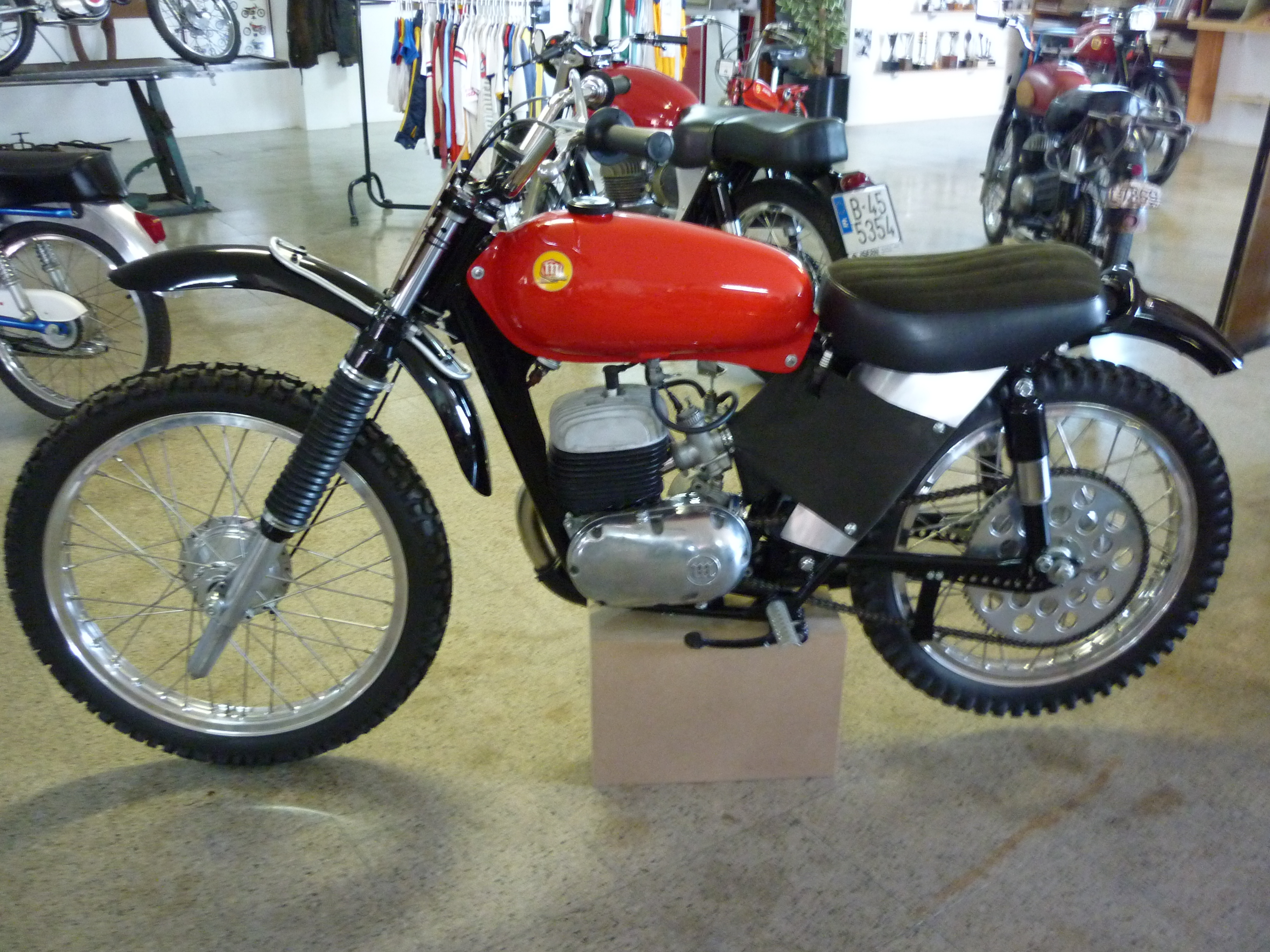 The first Montesa built specially for Motocross, based on a Brio 110 of the late 50. It was ridden by Pere Pi to 1960.Isern Motorcycle Museum, Mollet del Vallès (Catalonia).